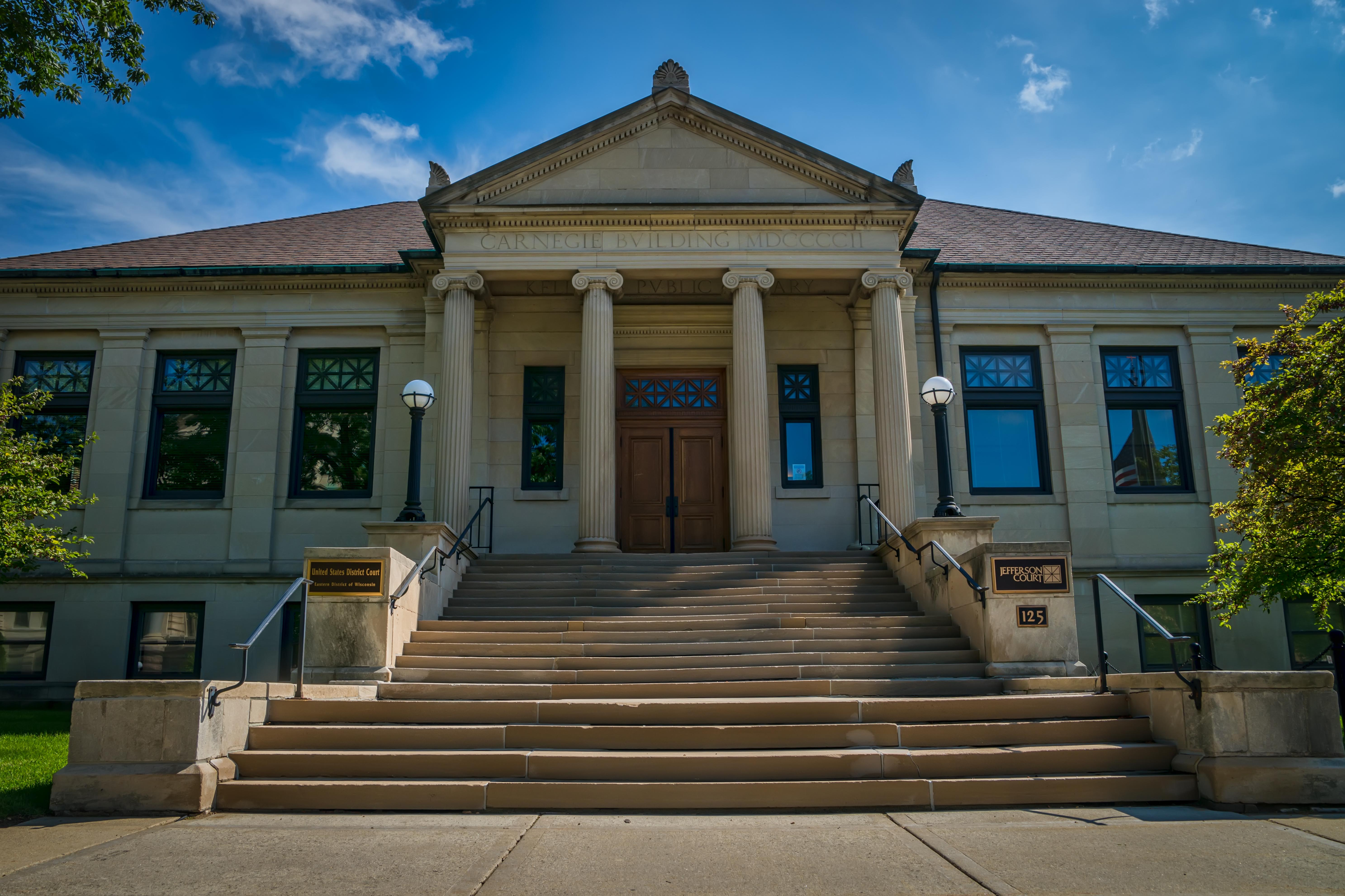 Kellogg Public Library and Neville Public Museum, 125 S. Jefferson St. Green Bay